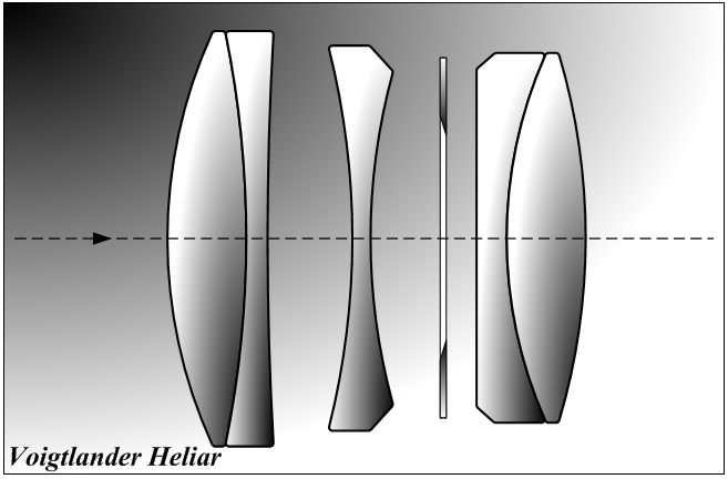 Heliar lens.